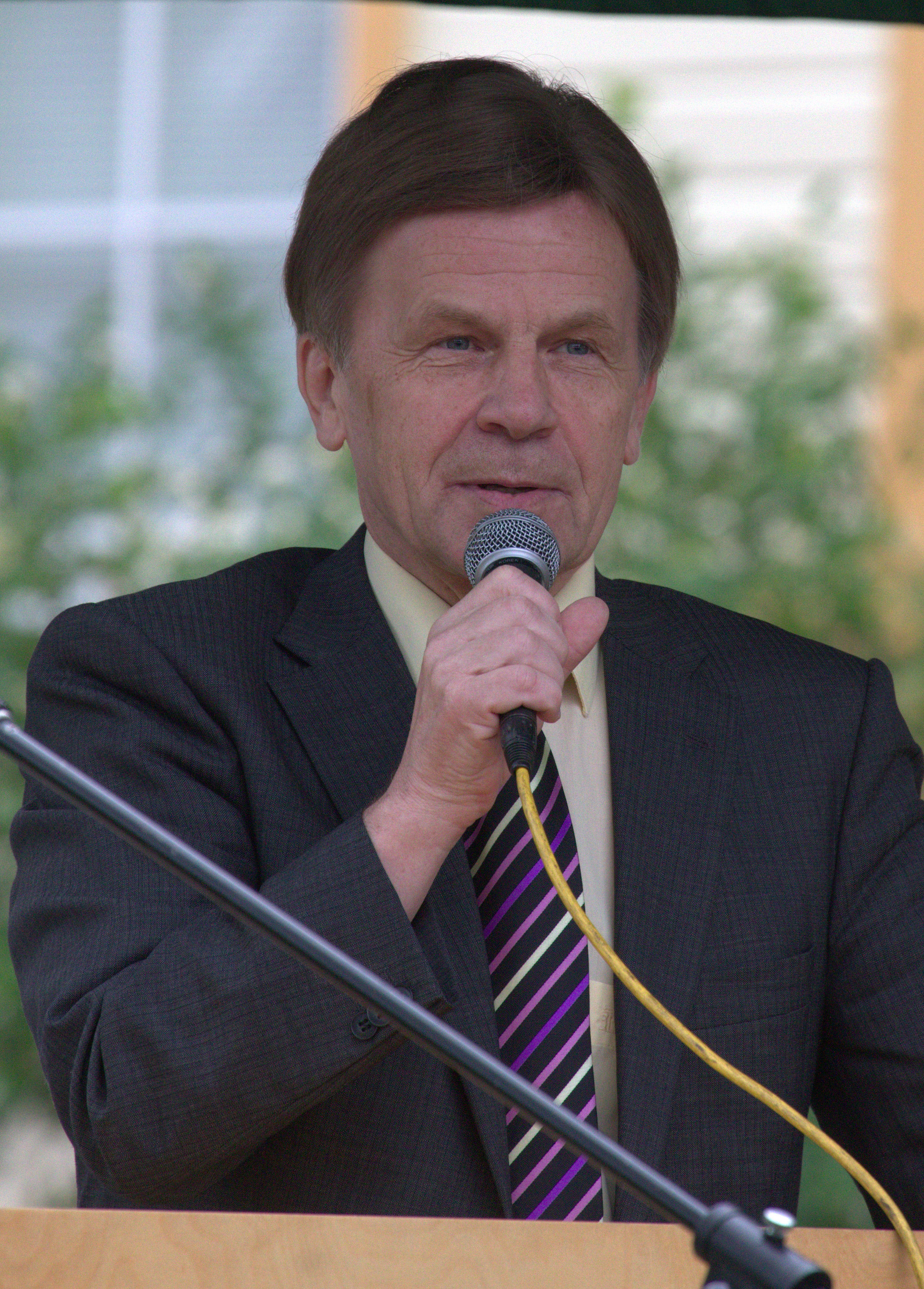 Mauri Pekkarinen